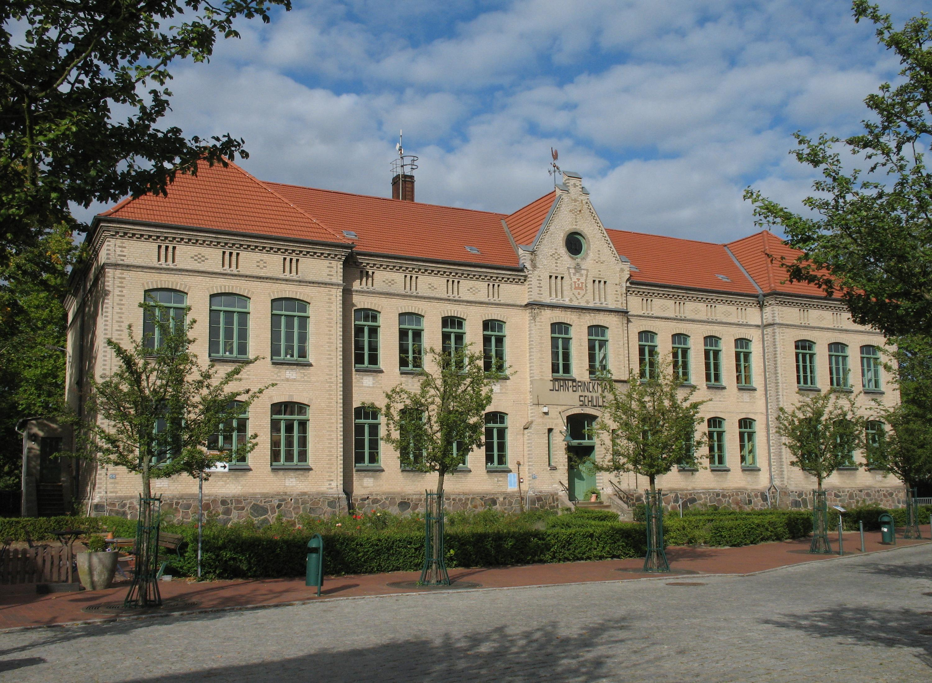 School building in Goldberg in Mecklenburg-Western Pomerania, Germany